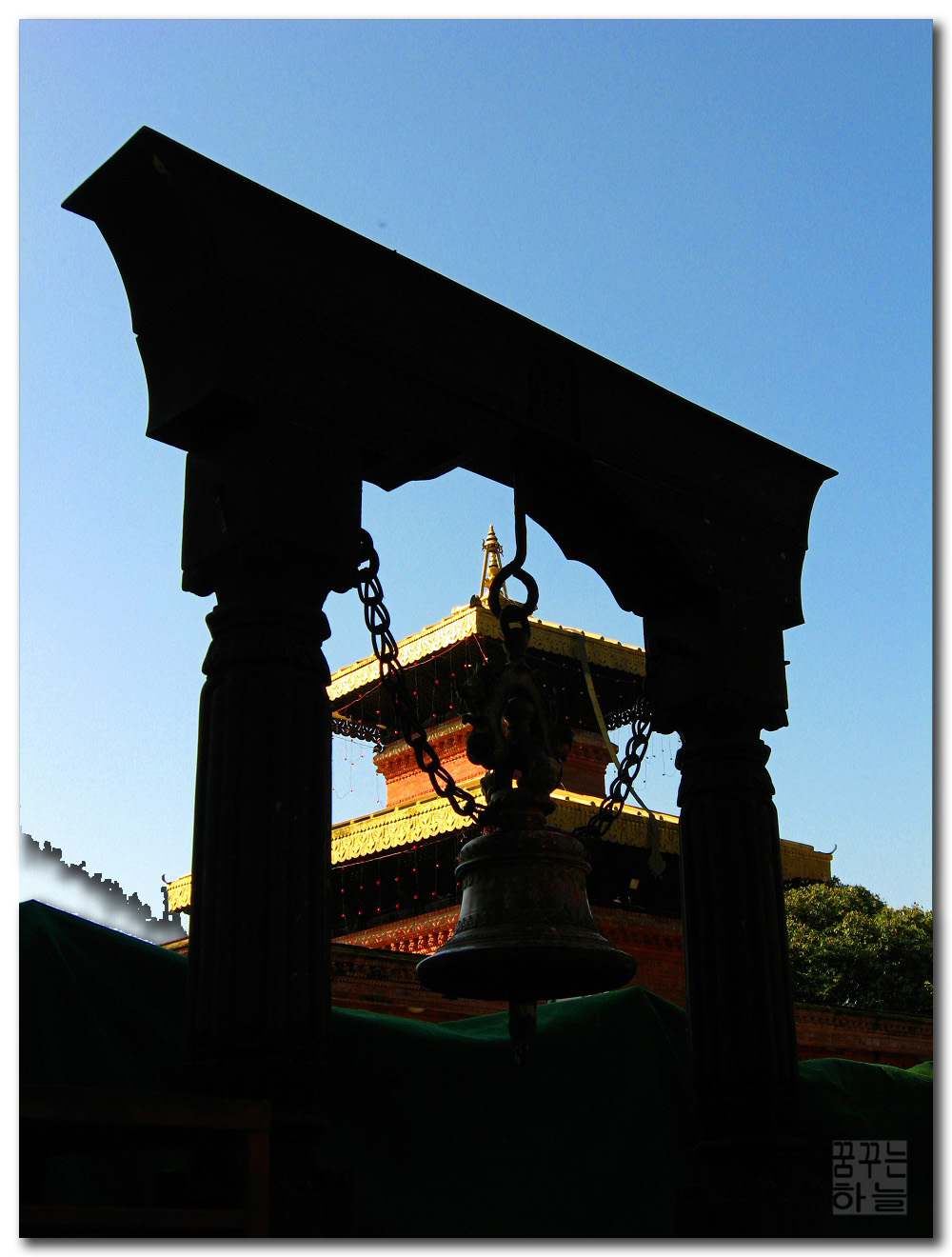 Radhakrishna Temple Pokhara